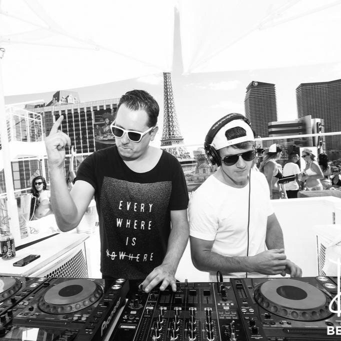 Project 46 performing at Drai's Las Vegas